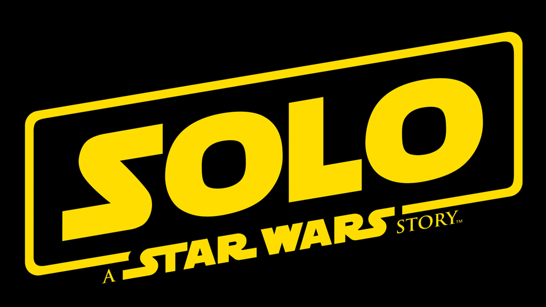 Logo for 2018 film Solo: A Star Wars Story